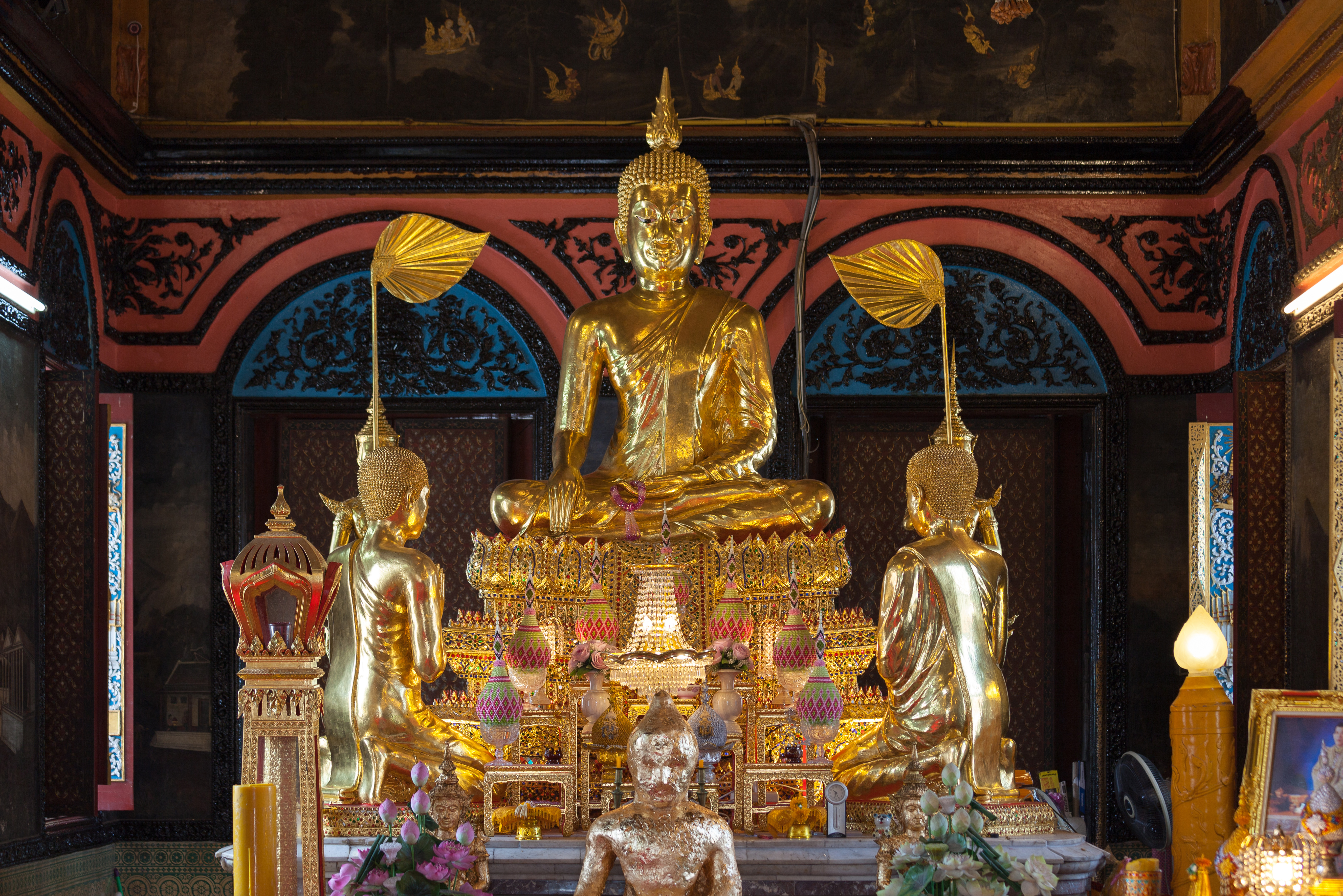 Phra Nonthamunin at Ubosot of Wat Paramai Yikawat